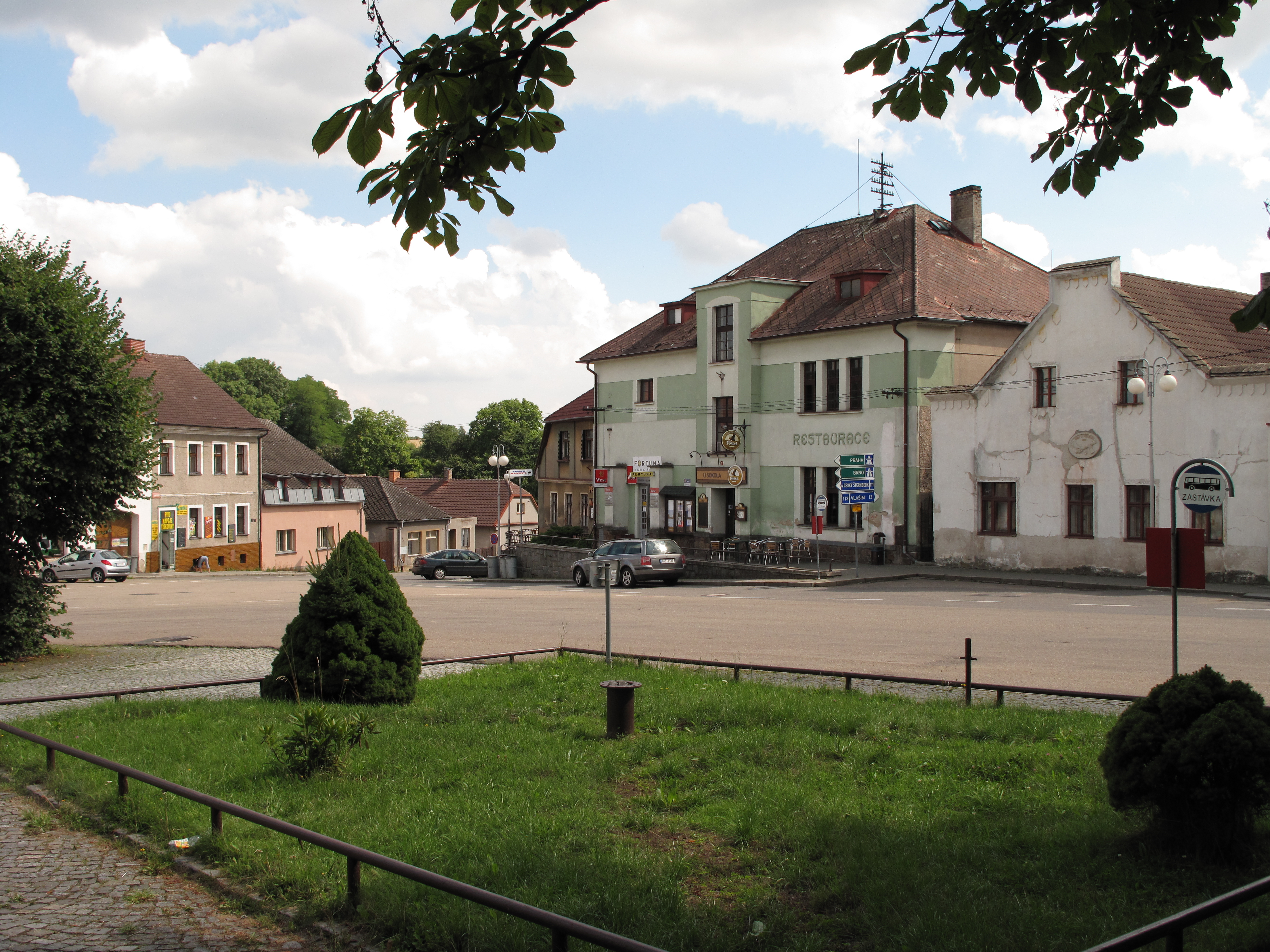 This photograph was taken within the scope of the second year of the 'Czech Municipalities Photographs' grant.